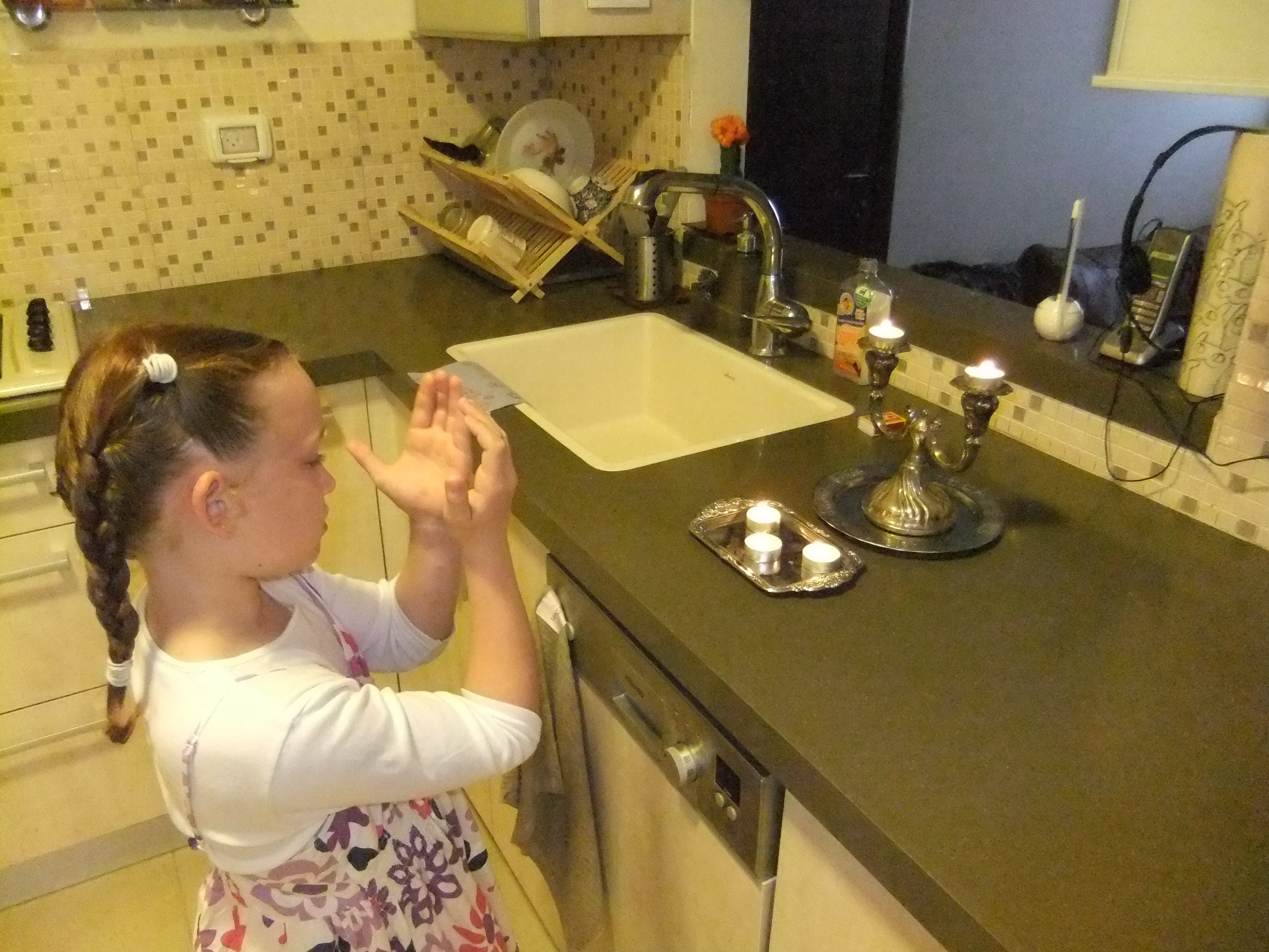 Girl lighting shabbat candles